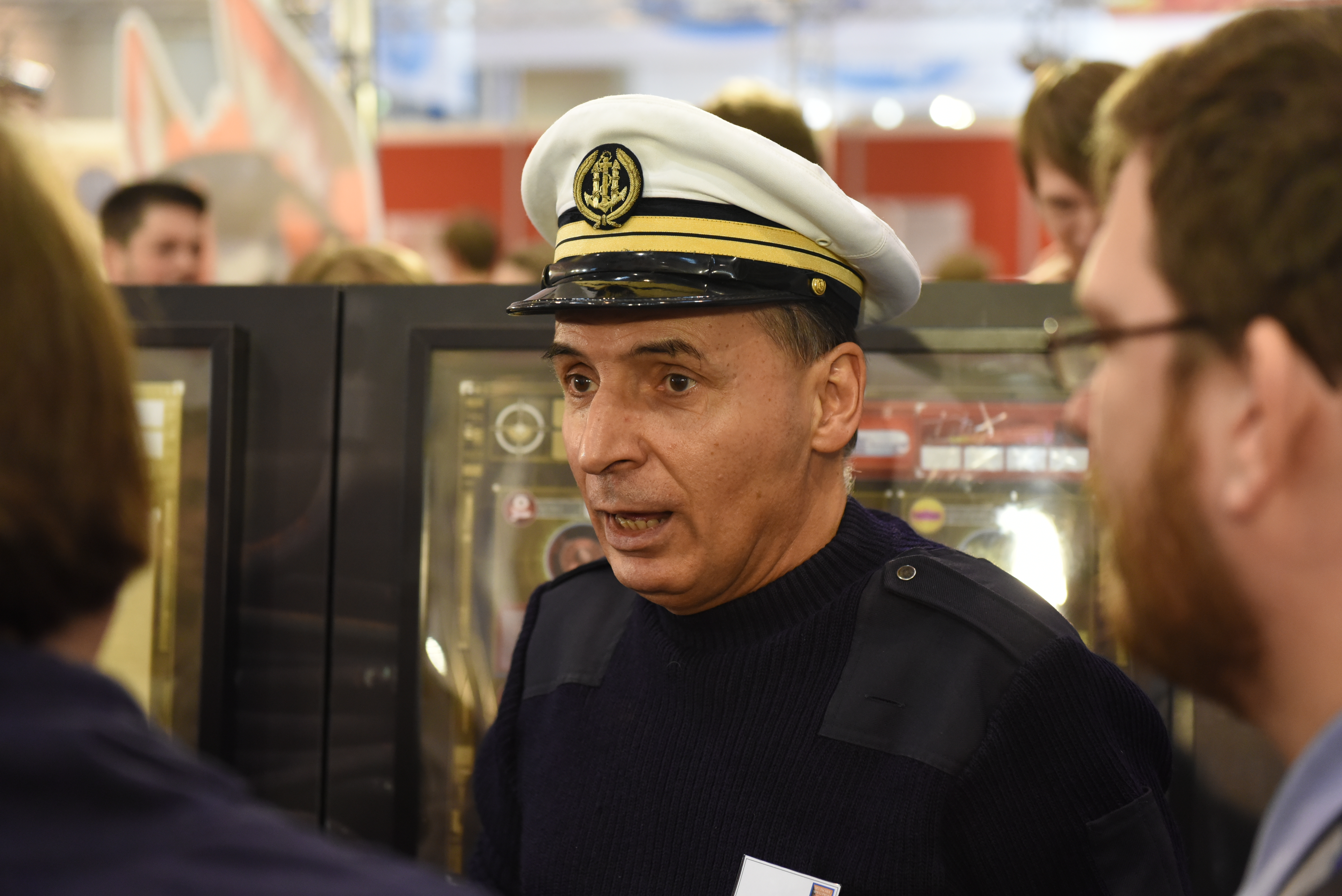 The game author Roberto Fraga at the board game fair Spiel '17 in Essen, Germany.